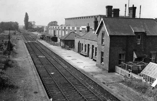 Burwell Station (remains). View westward, towards Cambridge; ex-Great Eastern, Cambridge (Barnwell Jct.) - Fordham - Mildenhall branch. The station was closed on 18/6/62 when the passenger service ceased, but it remained open for goods until 19/4/65 when the last section of the line (Fordham - Burwell) was closed, Barnwell Jct. - Burwell and Fordham - Mildenhall having been closed on 13/7/64: hence the remaining signs of activity in this 1963 photograph.